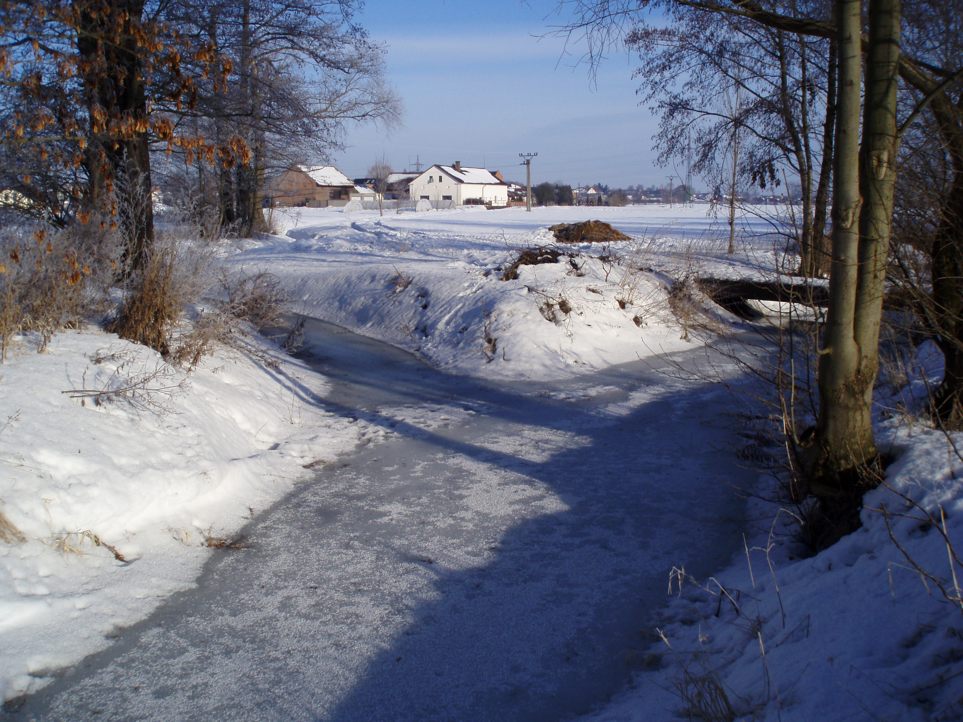 Confluence of the Melounka Stream and Labský náhon in Hradec Králové (Czechia)